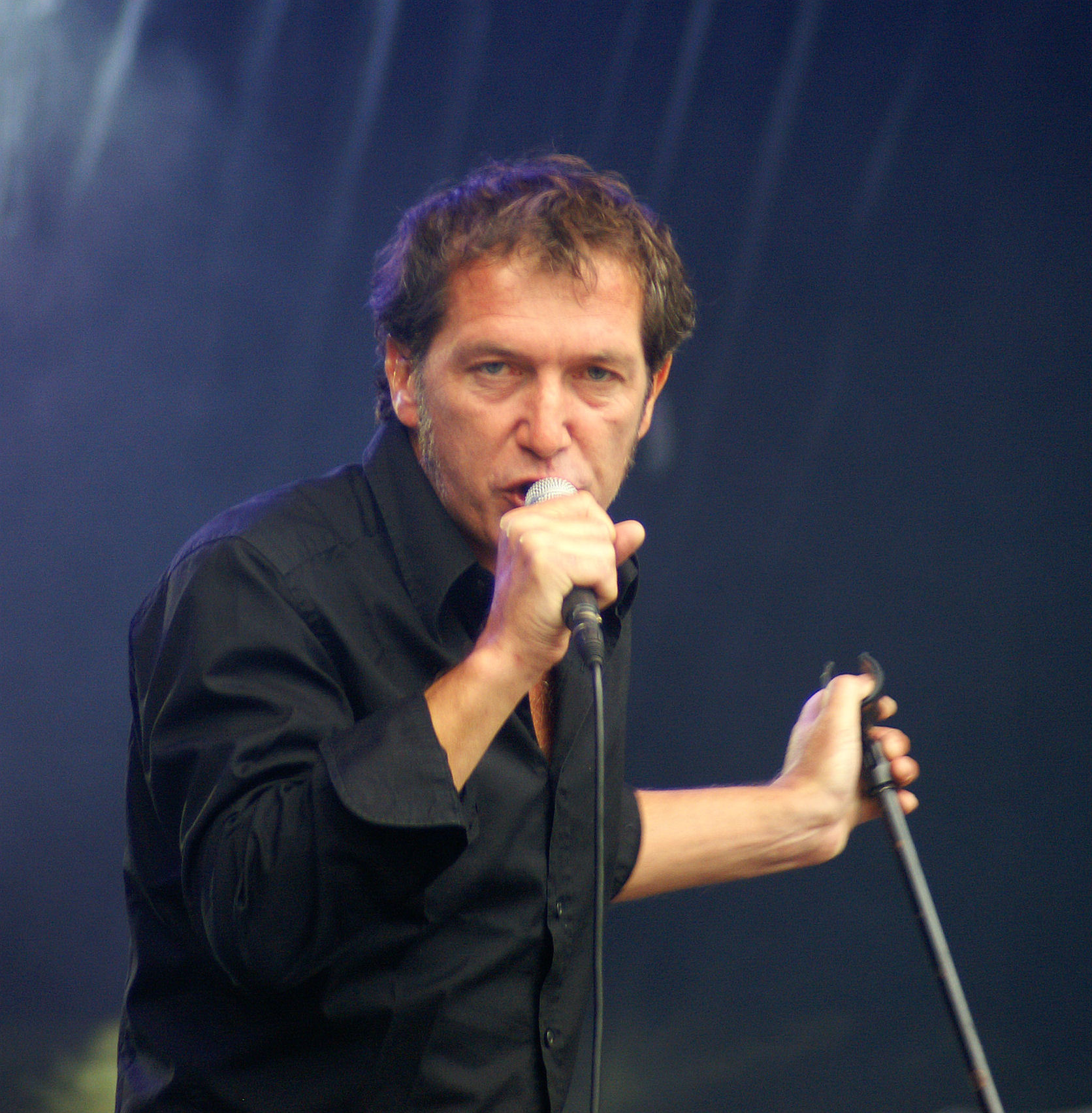 Christophe Miossec live at Aux Zarbs festival (Auxerre, France).Miossec @ Aux Zarbs (Auxerre) 2007